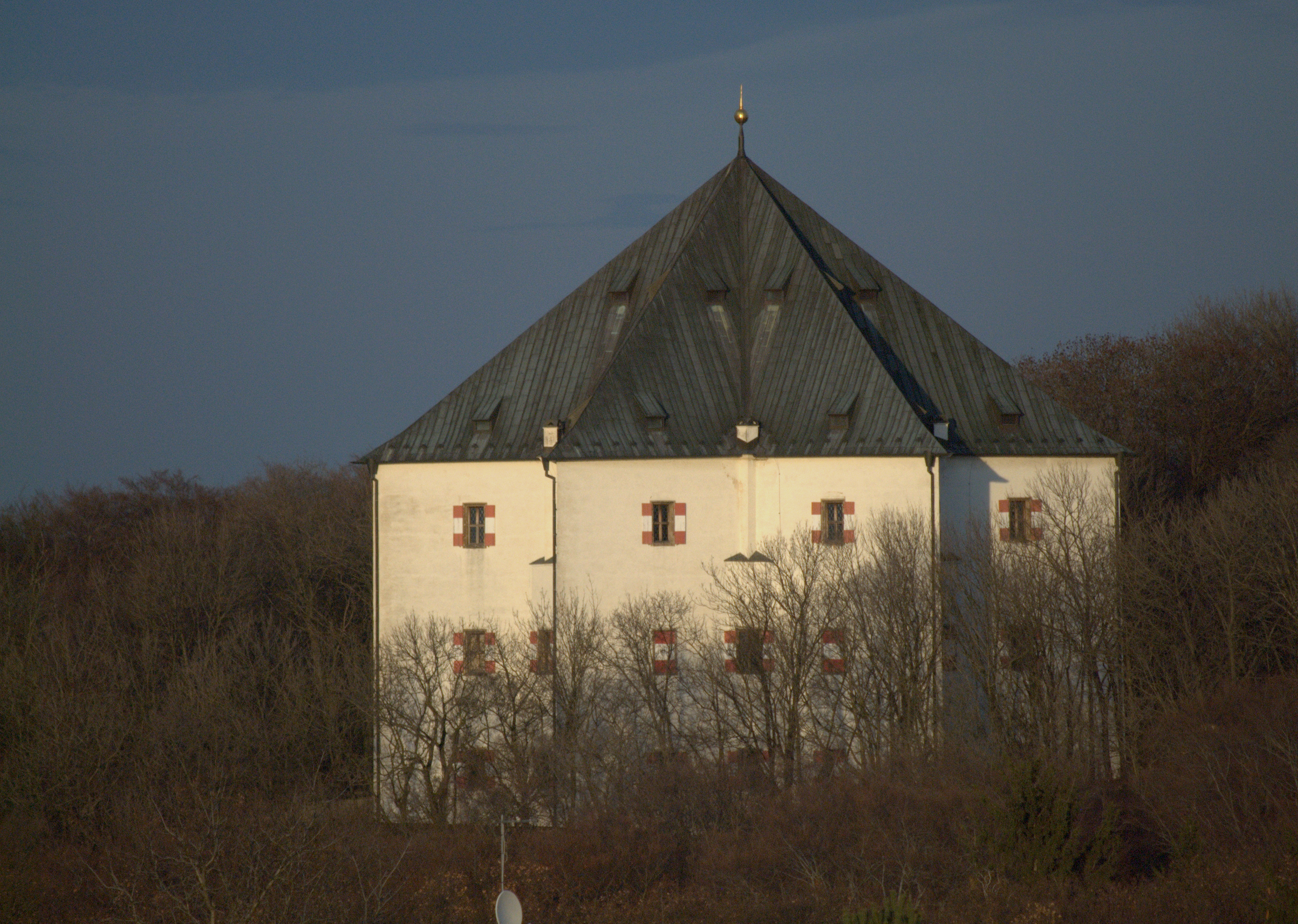 Summer castle Hvezda, Prague, view from White mountain